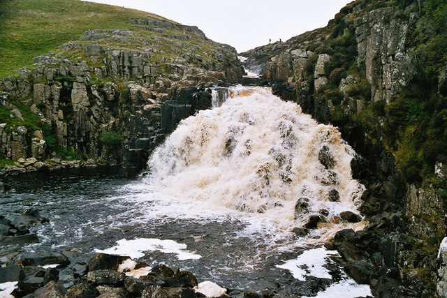 Cauldron Snout